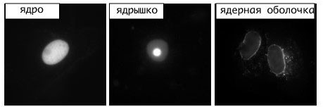 Picture of nuclear components with Russian description